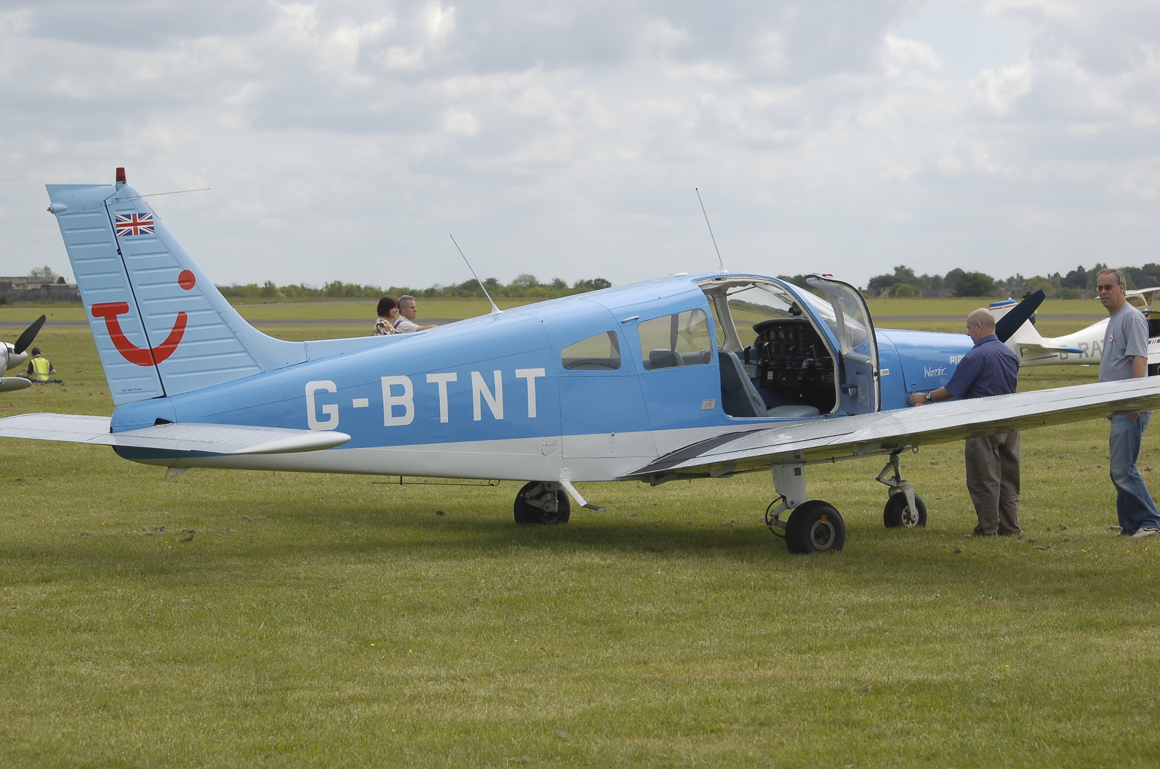 Piper PA-28-151 (G-BTNT) at a G-VFWE Rally at Hullavington Airfield, Wiltshire, England. Built in 1976.